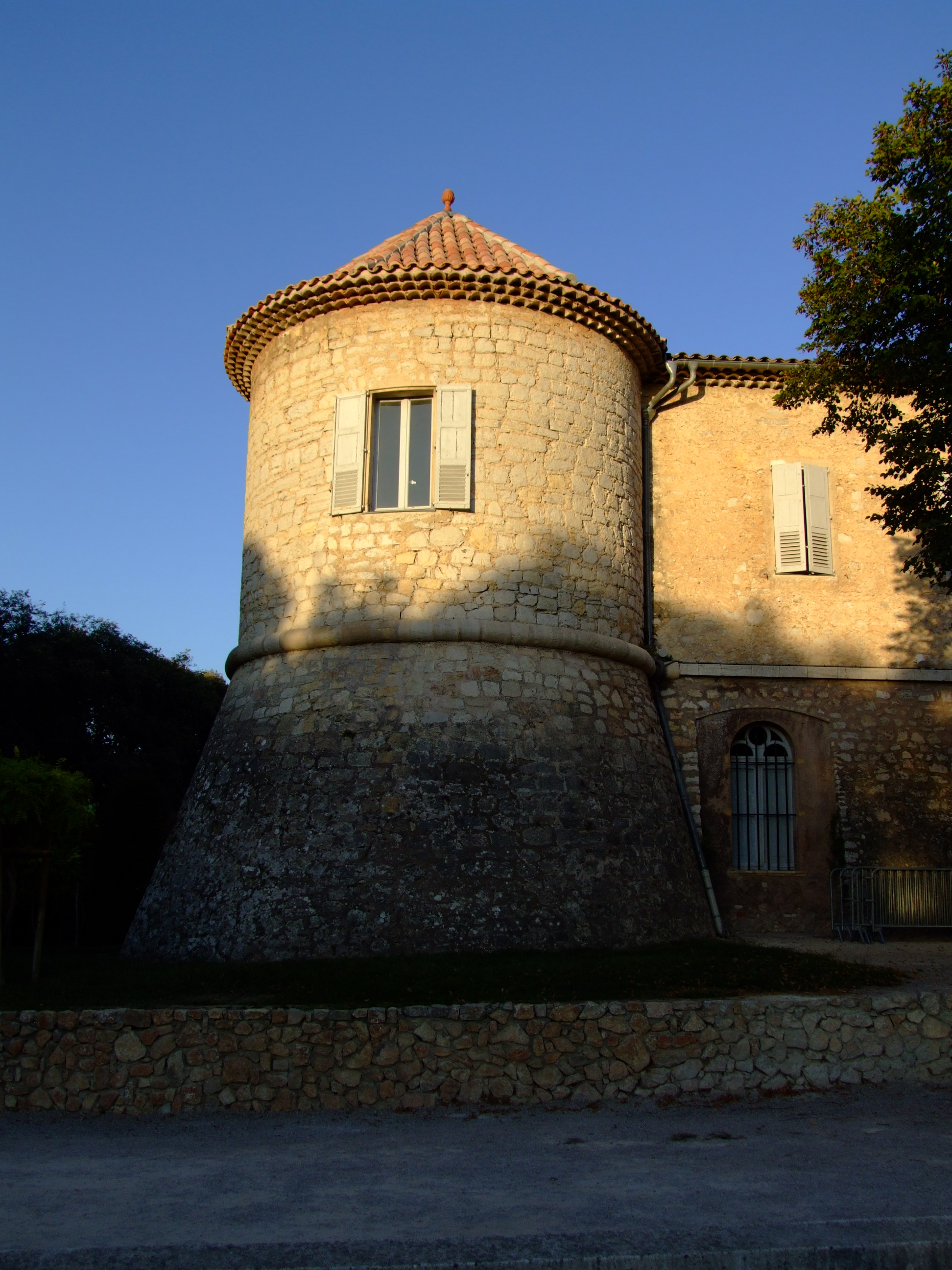 Mouans-Sartoux, Alpes-Maritimes, France